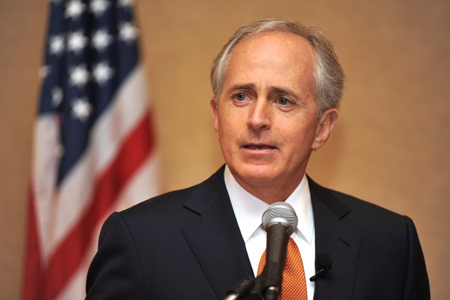 Bob Corker discusses economic and housing market issues with realtors at a luncheon in Franklin, Tennessee.